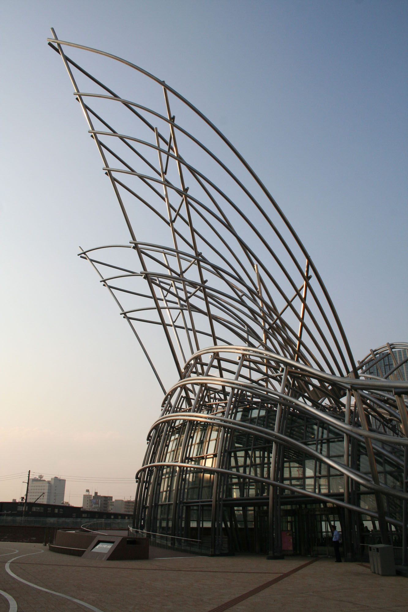 Taken at the National Museum of Art, Osaka